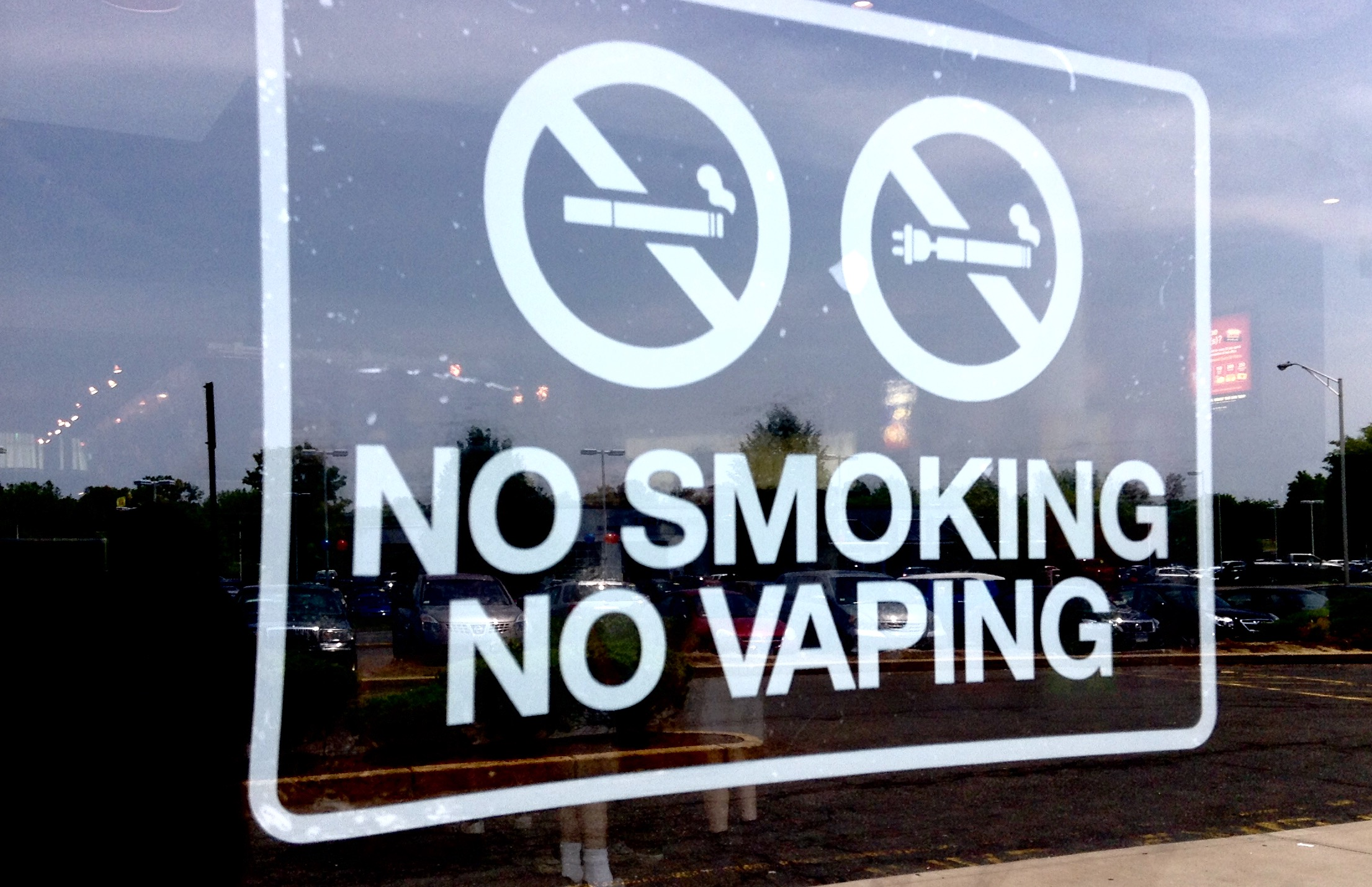 No vaping sign, June 2015, Starplex Cinema, by Mike Mozart of TheToyChannel and JeepersMedia on YouTube.